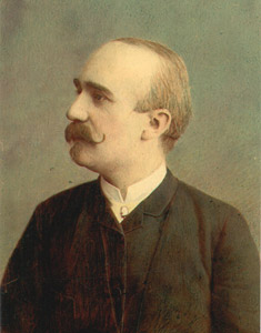 Hungarian Romantic composer (1842-1920)